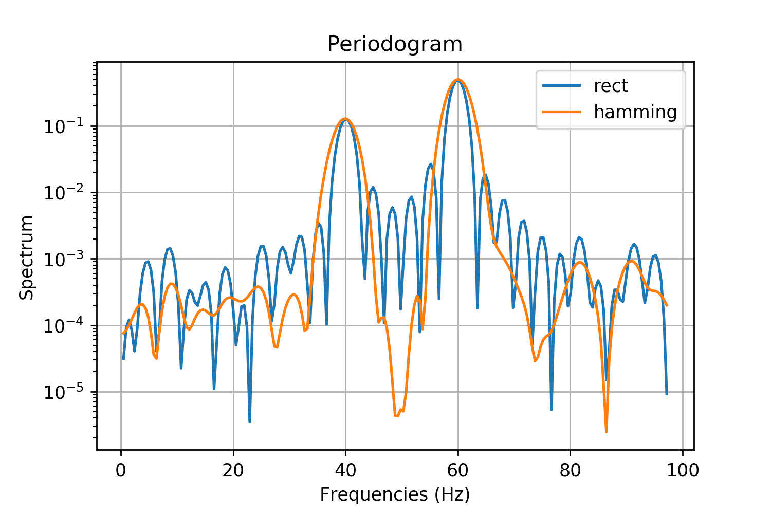 Developed using scipy.signal.periodogram.